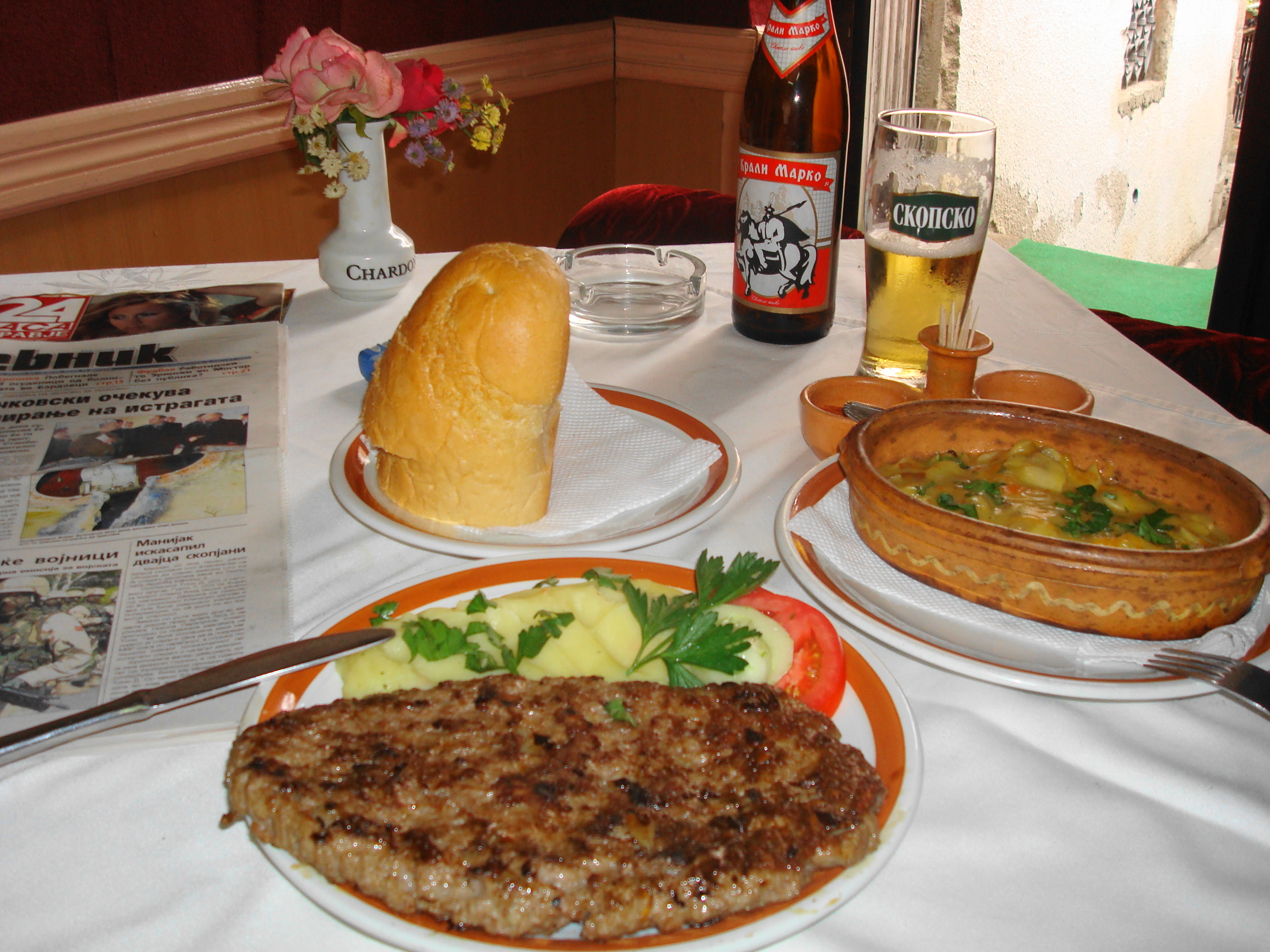 Pljeskavica served in Bitola, Macedonia.